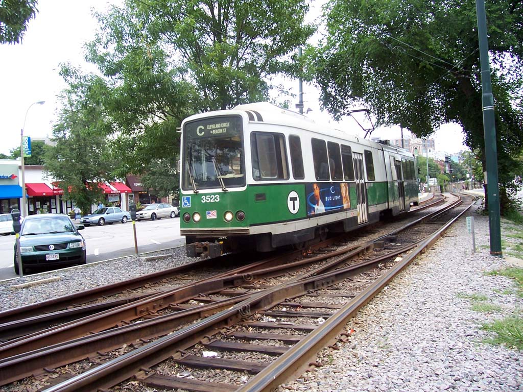 Boeing Vertol USSLRV #3523 on the Green C line bound for Cleveland Circle. This car has since been retired and scrapped. The St. Mary's Street surface stop is visible in the background.